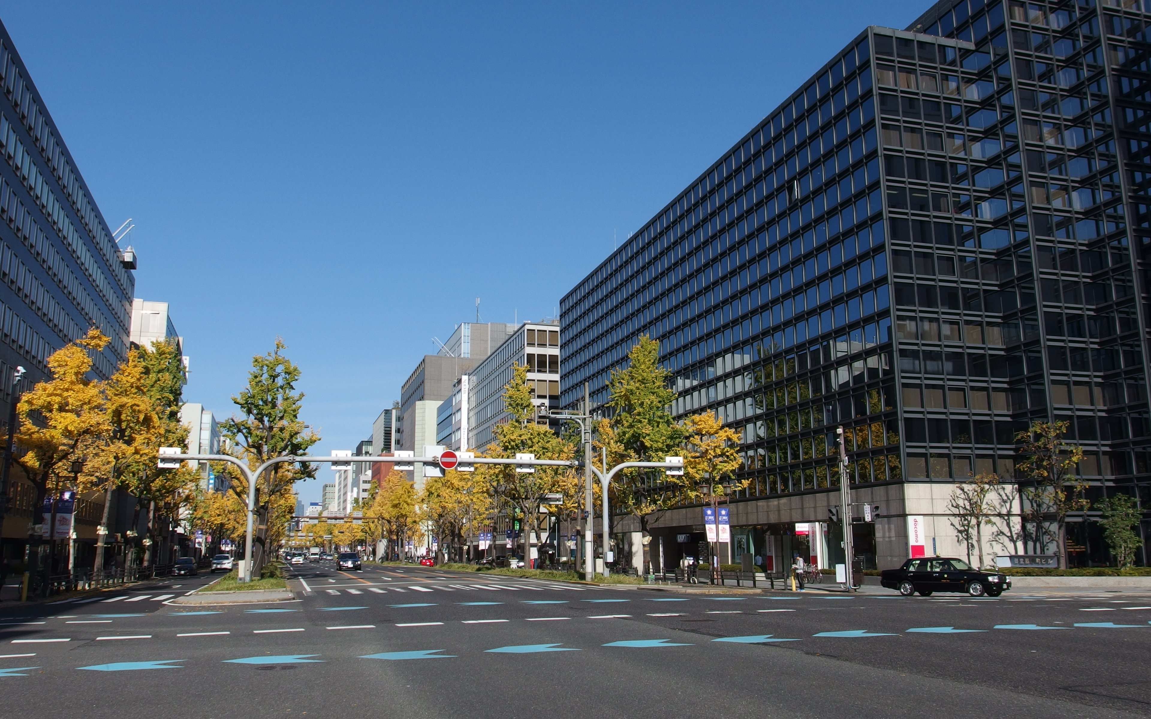 Midōsuji street in Osaka, Osaka Prefecture, Japan